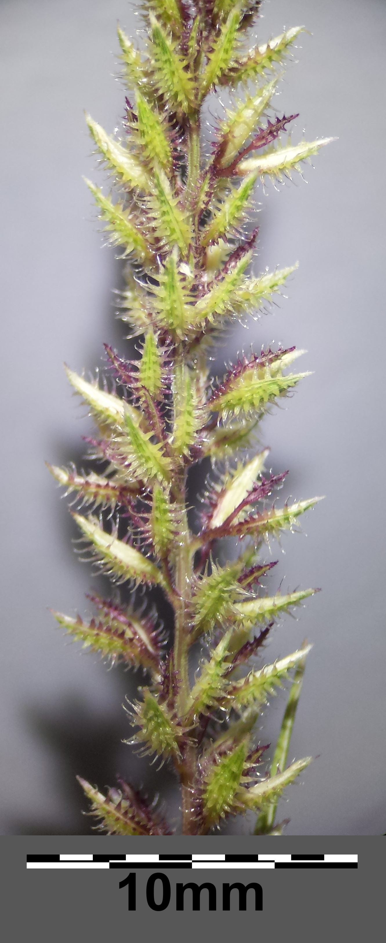 Panicle (detail) Taxonym: Tragus racemosus ss Fischer et al. EfÖLS 2008 ISBN 978-3-85474-187-9 Location: eastern end of Limski channel, community Jural, County Istria, Croatia Habitat: side verge